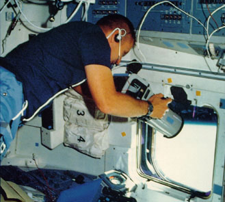 NASA Astronaut and STS-51-B Commander Robert F. Overmyer using an Aero Linhof camera during the STS-51-B (Spacelab-3) mission in 1985. NASA photo 51B-05-009 in public domain.